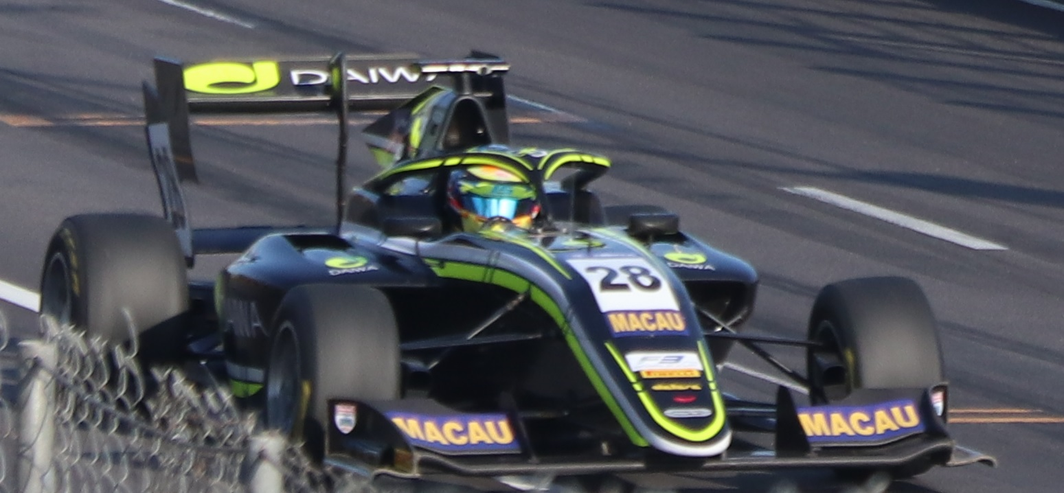 Logan Sargeant, Third Place Driver of 2019 Macau Grand Prix